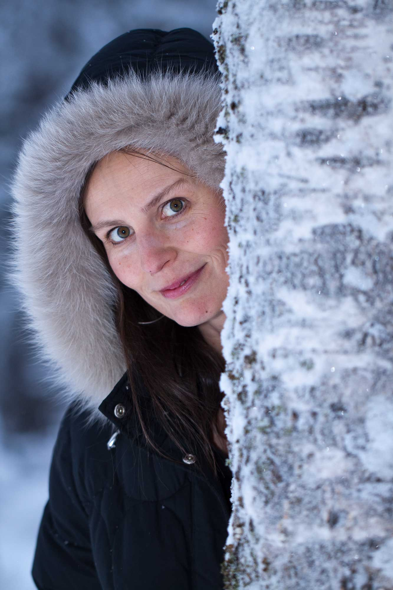 Photograph of the writer Päivi Junttila